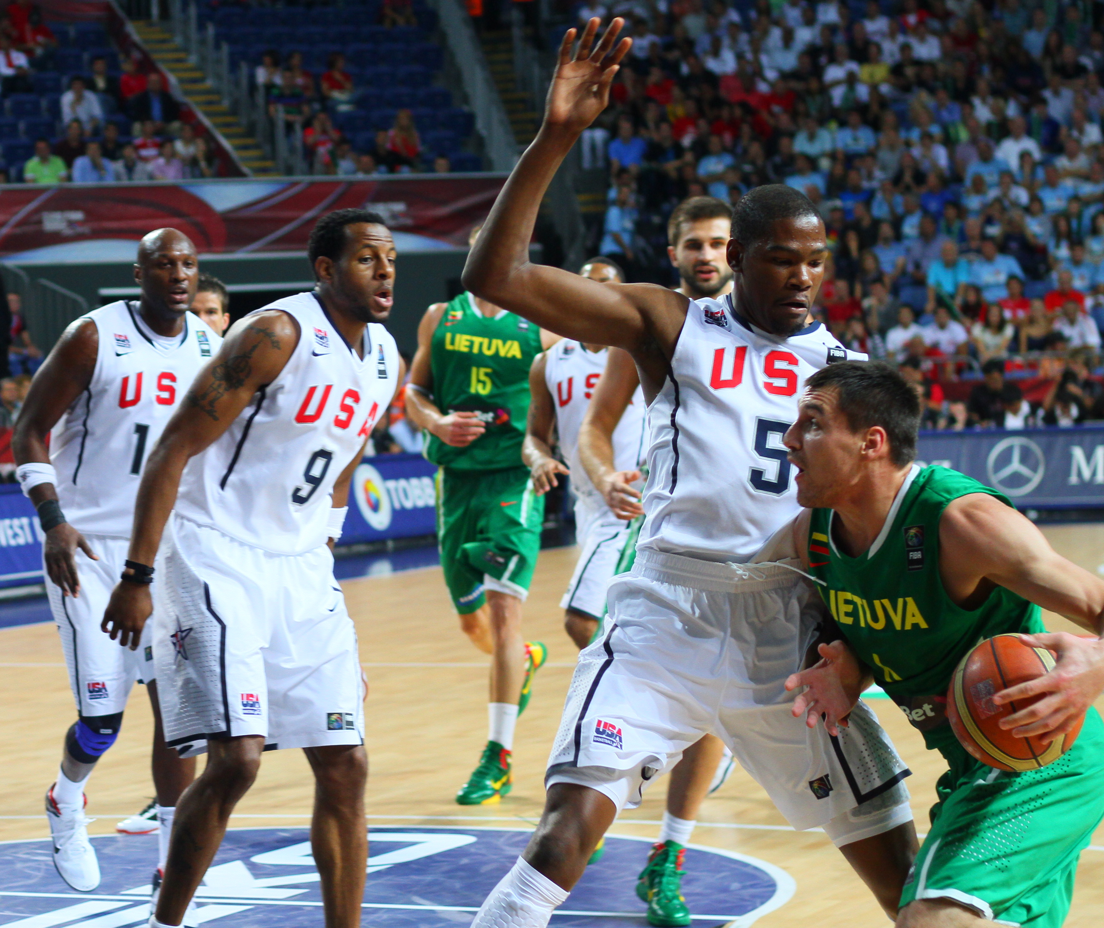 Jonas Mačiulis attacks the team USA basket.